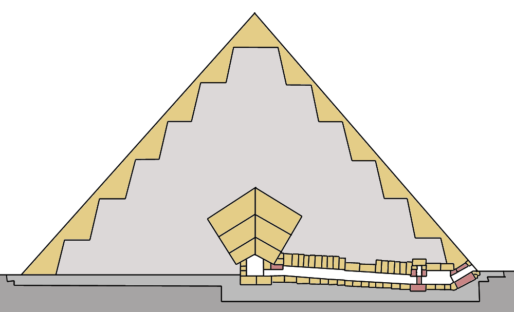 Structure of the Pyramid of Sahure at Abousir (base on the reconstruction of Ludwig Borchardt)